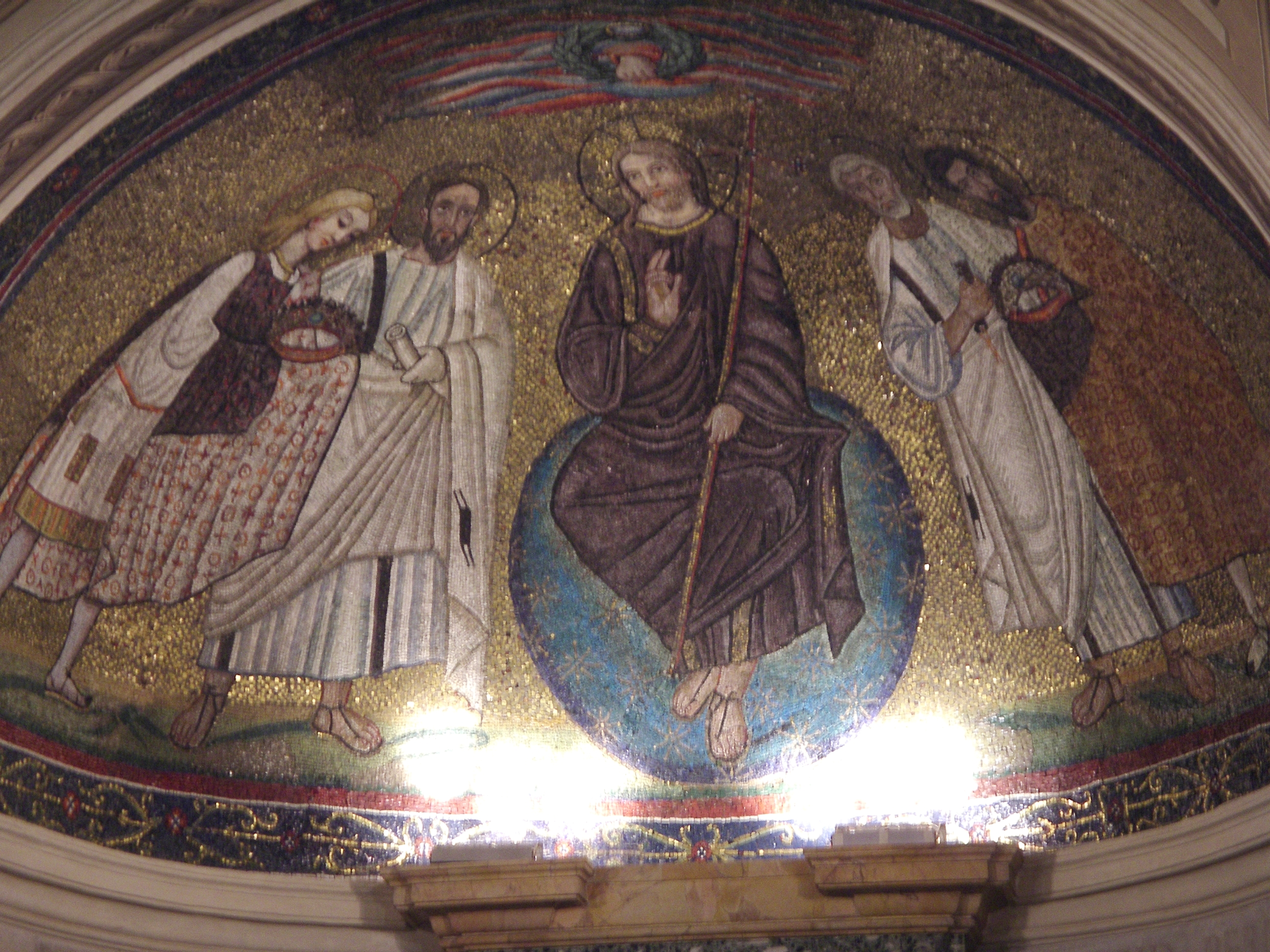 Mosaic of the absys of San Teodoro al Palatino, at Rome, with Christ, saints Paul and Peter and the two saints Theodore, 6th and 14th cent.